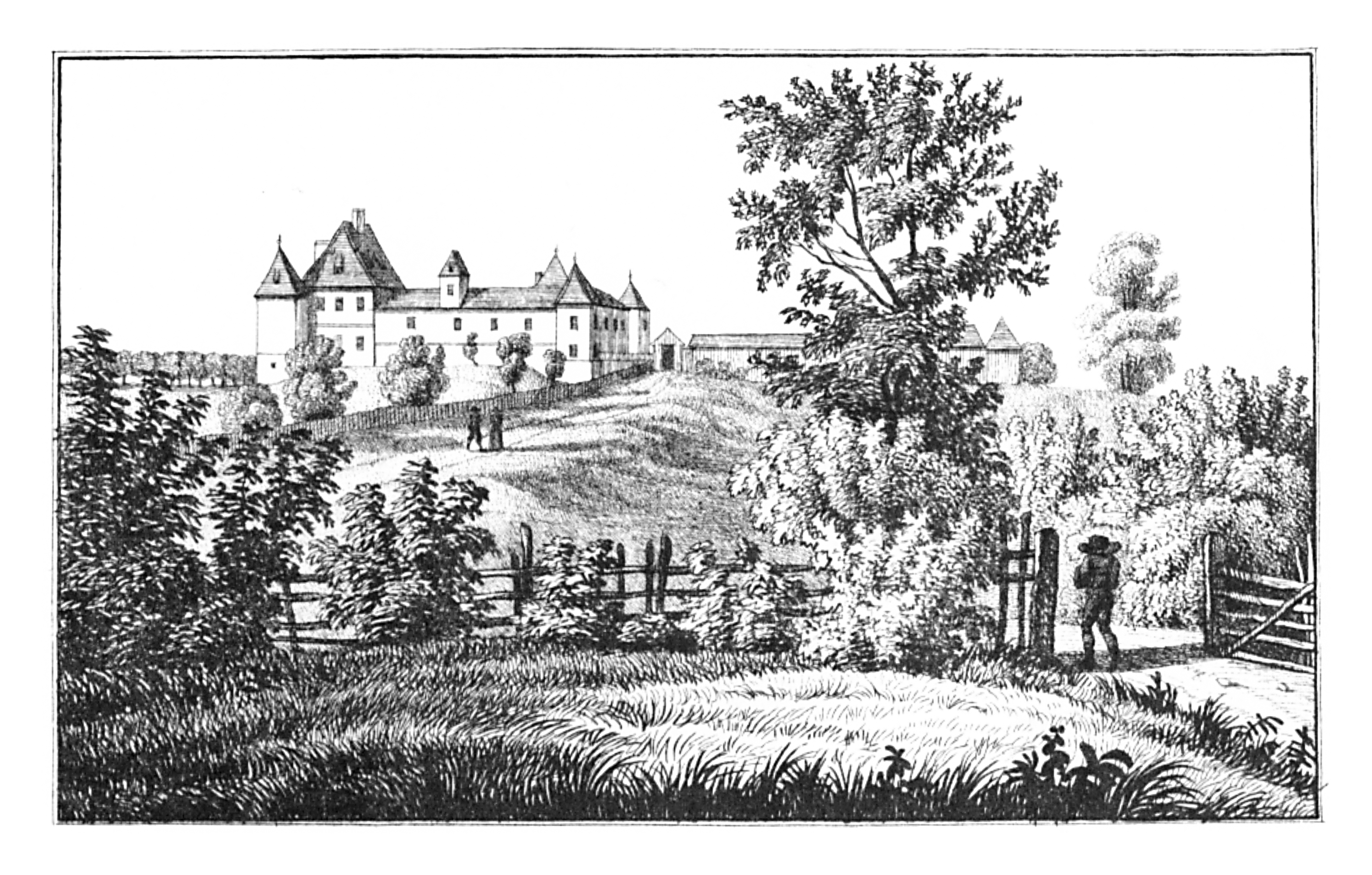 J. F. Kaiser - lithographirte Ansichten der Steyermärkischen Städte, Märkte und Schlösser, Graz 1824-1833 Joseph Franz Kaiser (1786–1859) Alternative names J. F. KaiserDescriptionAustrian printer and editorDate of birth/death 11 March 1786 19 September 1859Location of birth/death Graz (Styria) GrazAuthority control : Q1499963 VIAF: 30629353 ISNI: 0000 0000 3083 0153 LCCN: n87141671 GND: 129880159 NLP: A24960305 WorldCat creator QS:P170,Q1499963 . Scanprojekt Community Projektbudget 2012 This scan or this PDF-file was created within the GLAM-project Bookscanning, supported by Wikimedia Germany and Wikimedia Austria as a part of the community-project to capture books, documents and pictures which are not eligible to copyright or for which the copyright has expired. This document describes or depicts an object which is located in Austria today. Send requests for uncompressed scans to Hubertl. This work is in the public domain in its country of origin and other countries and areas where the copyright term is the author's life plus 100 years or fewer. You must also include a United States public domain tag to indicate why this work is in the public domain in the United States. This file has been identified as being free of known restrictions under copyright law, including all related and neighboring rights.